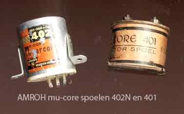 Coils used in a Dutch crystal radio receiver.